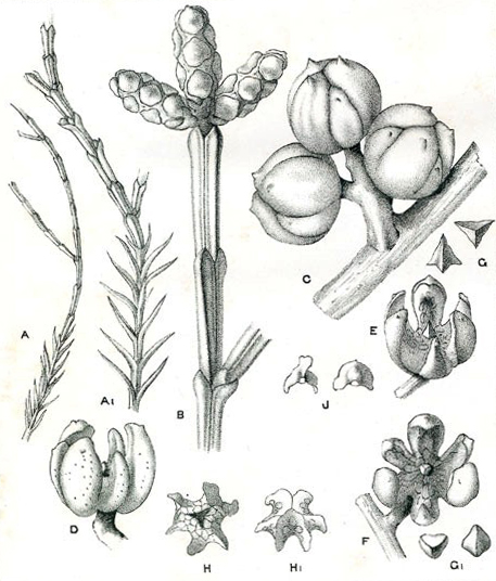 Plate 48 from "Forest Flora of New South Wales" A-J: Callitris muelleri (Parl.) Benth. & Hook.f. ex F.Muell.